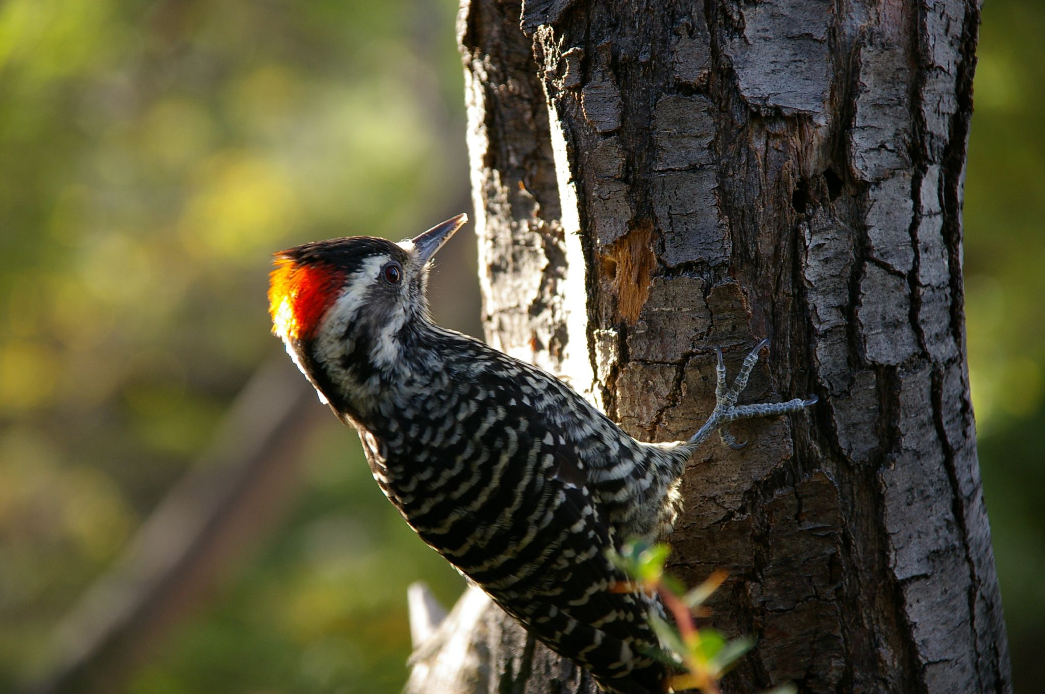 Woodpecker, Lake Pehoe campsite, Torres del Paine National Park, Chile.